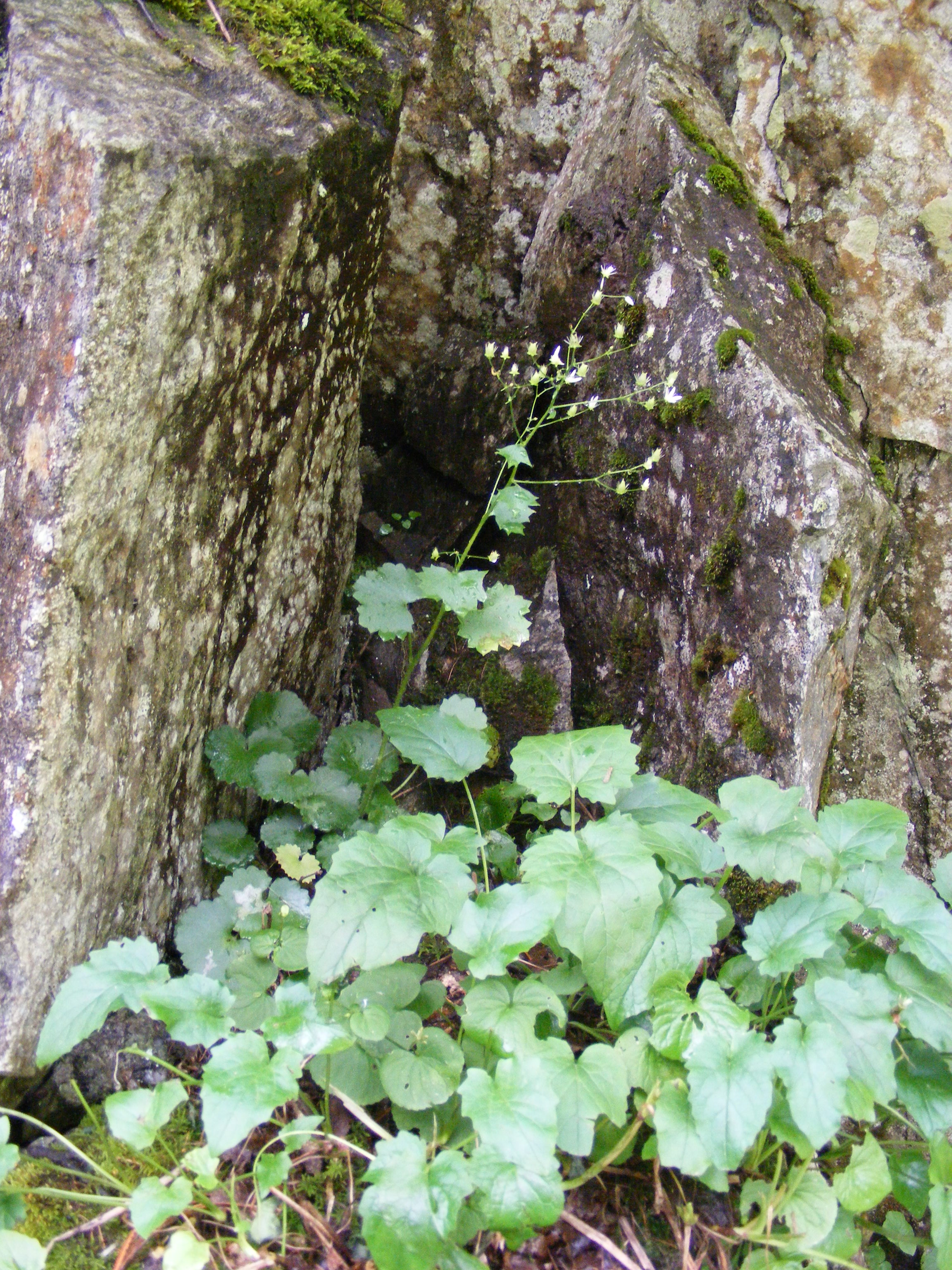 This photo shows Saxifraga aizoides